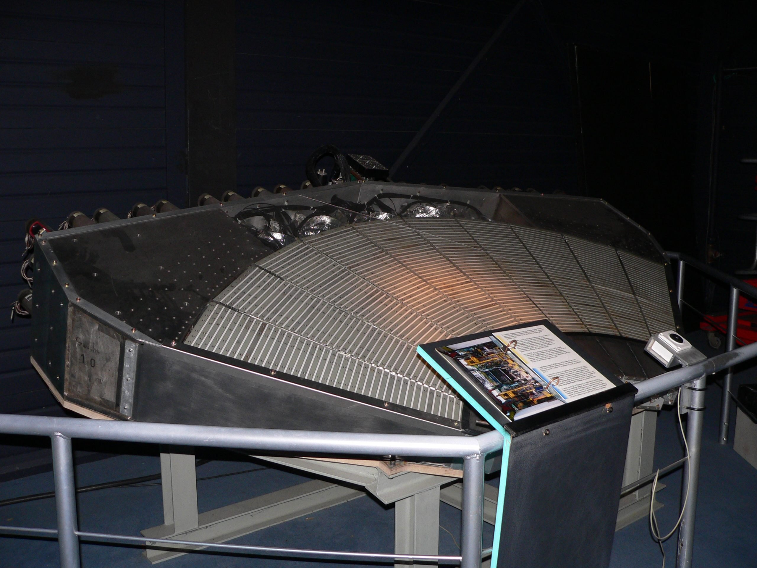 "Microcosme" exposition at the CERN